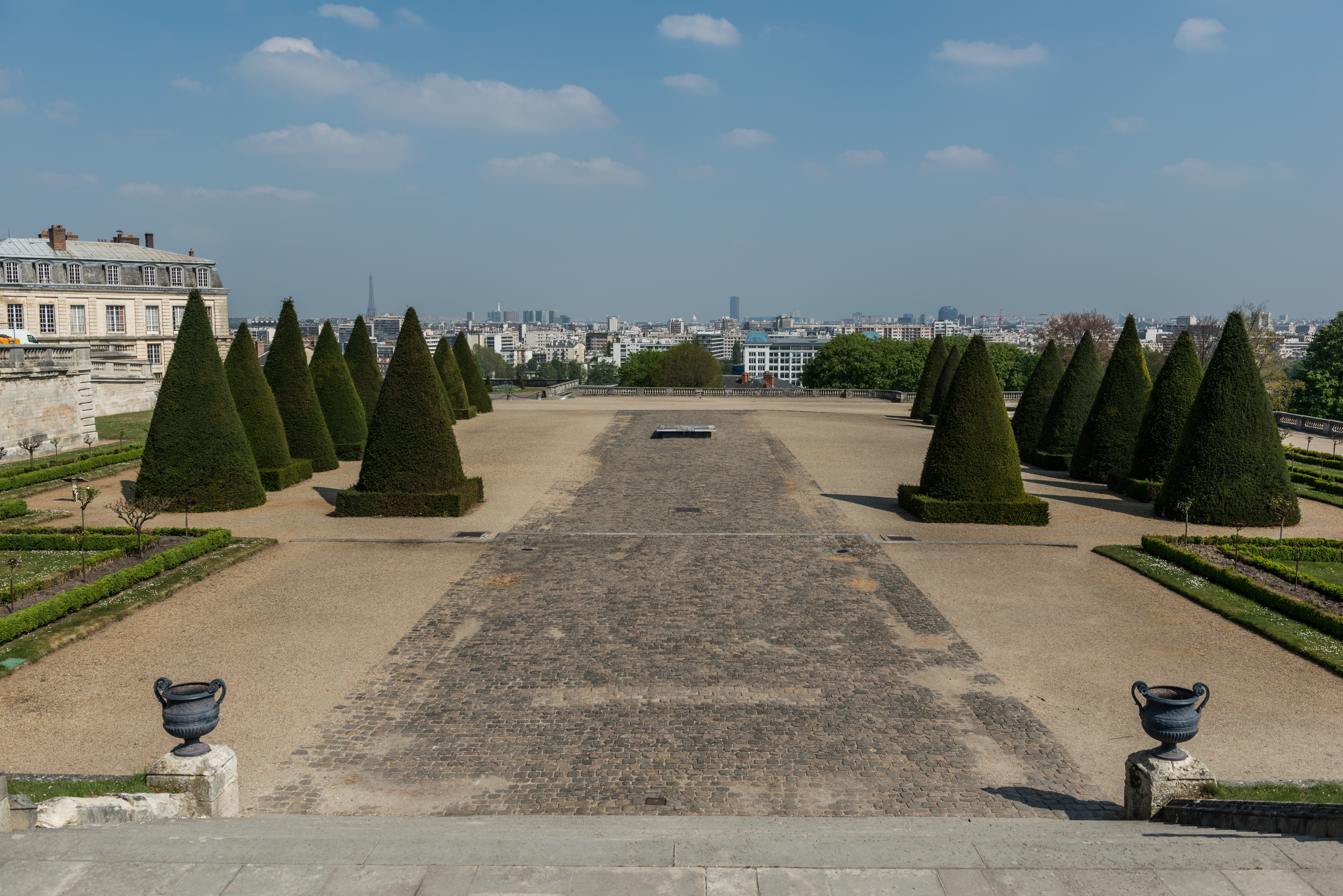 The terrace of the Parc de Saint-Cloud, the location of the former palace is shown by the trees.